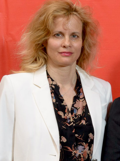 Lori Singer at the 2014 Peabody Awards